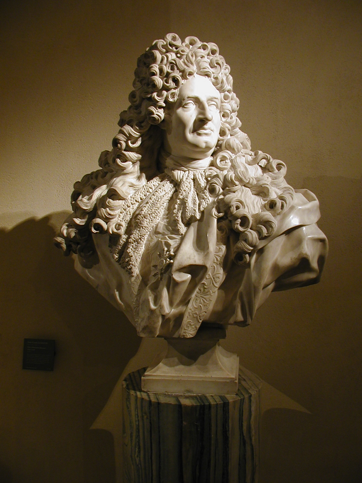 Bust of Jules Hardouin-Mansart (1645–1708)